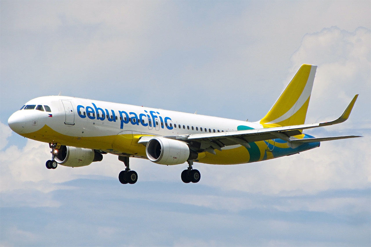 An Airbus A320-214 wearing the new livery approaching Francisco Bangoy International Airport in Davao City.